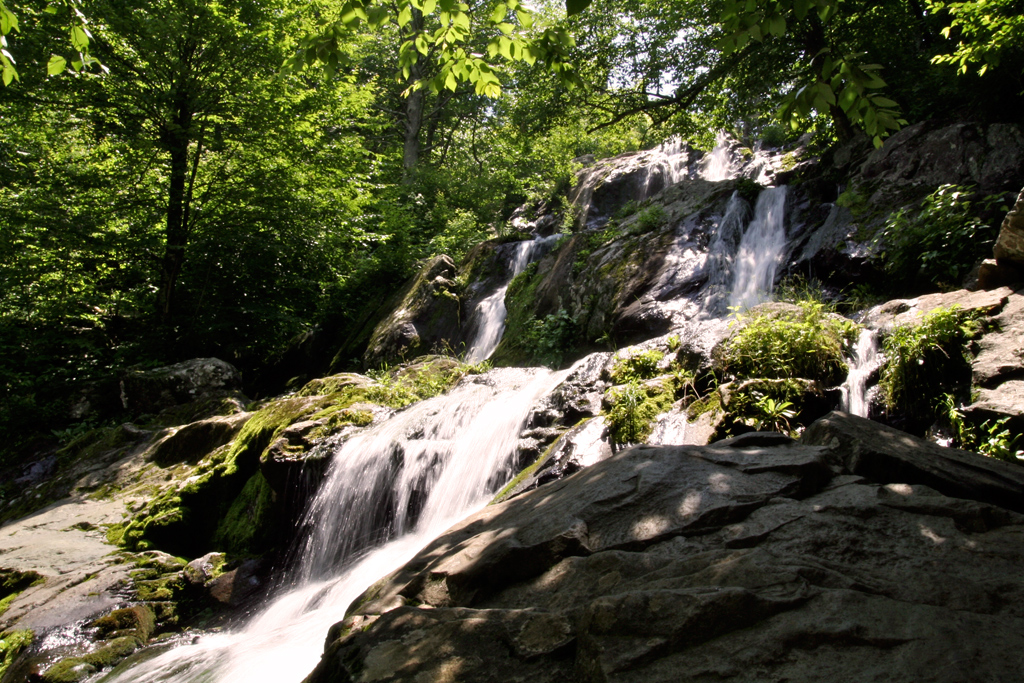 Dark Hollow Falls, Summer 2007. Photo by W. Grotophorst